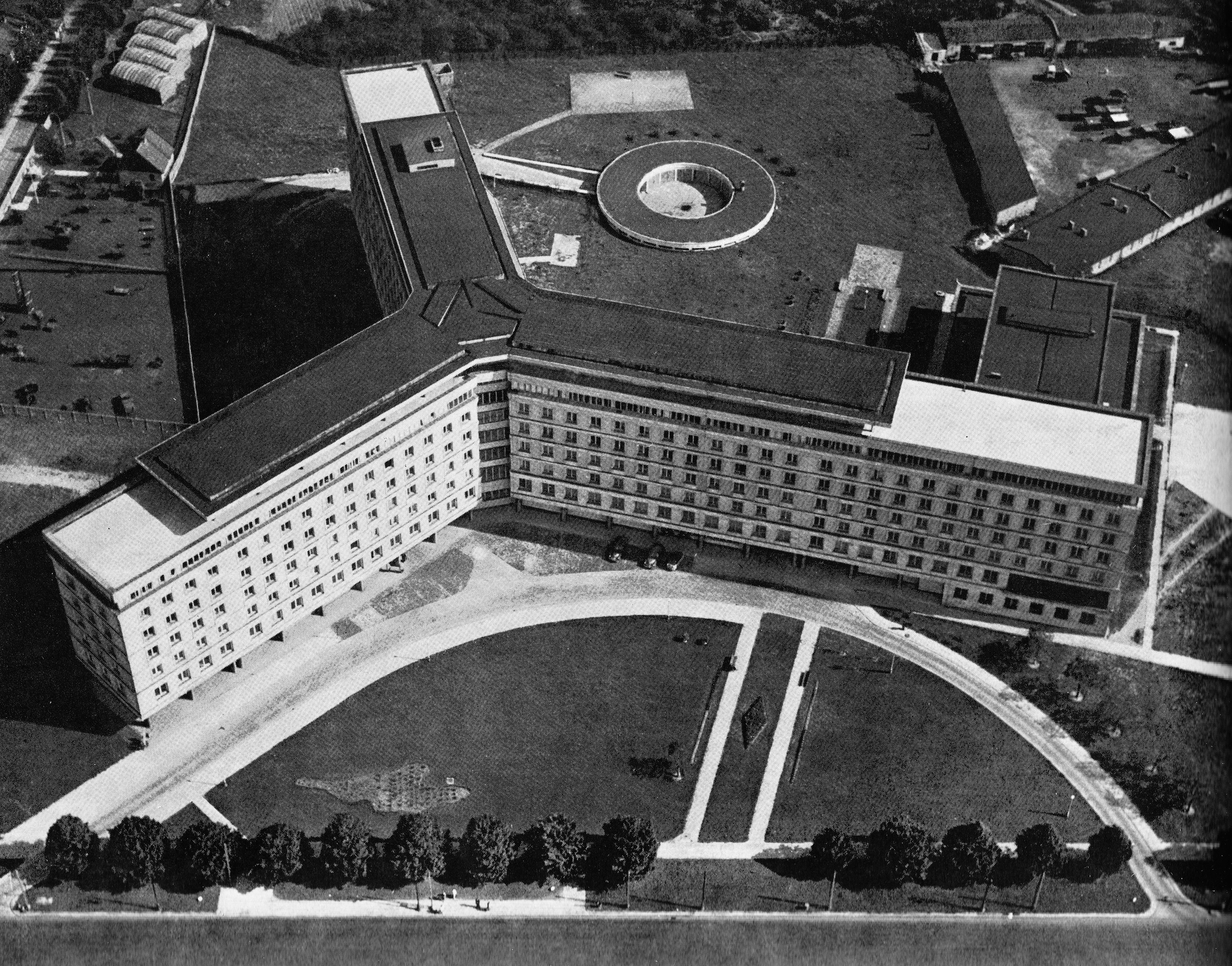 Central Statistical Office building in Warsaw